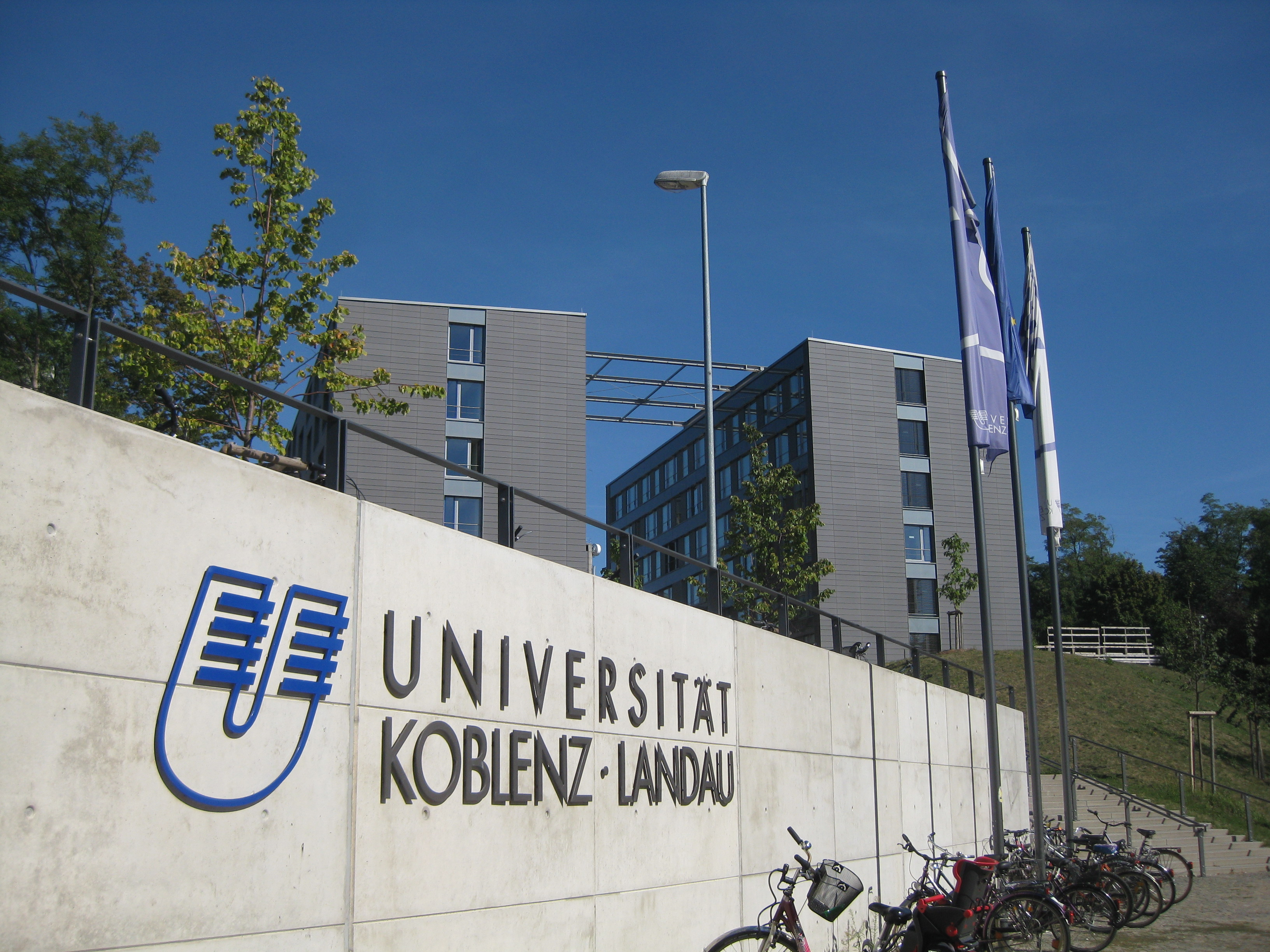 Stairs between the buildings I and K at the campus in Landau